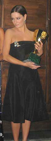 Giovanna Mezzogiorno with the Volpi Cup for the Best Actress at the 62nd Venice International Film Festival 2005 (for the film La Bestia nel Cuore)